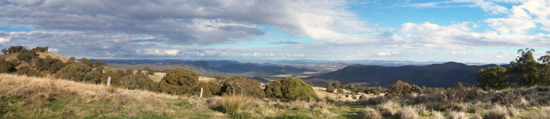 View from Moonbi Range into Moonbi and Peel Valleys.